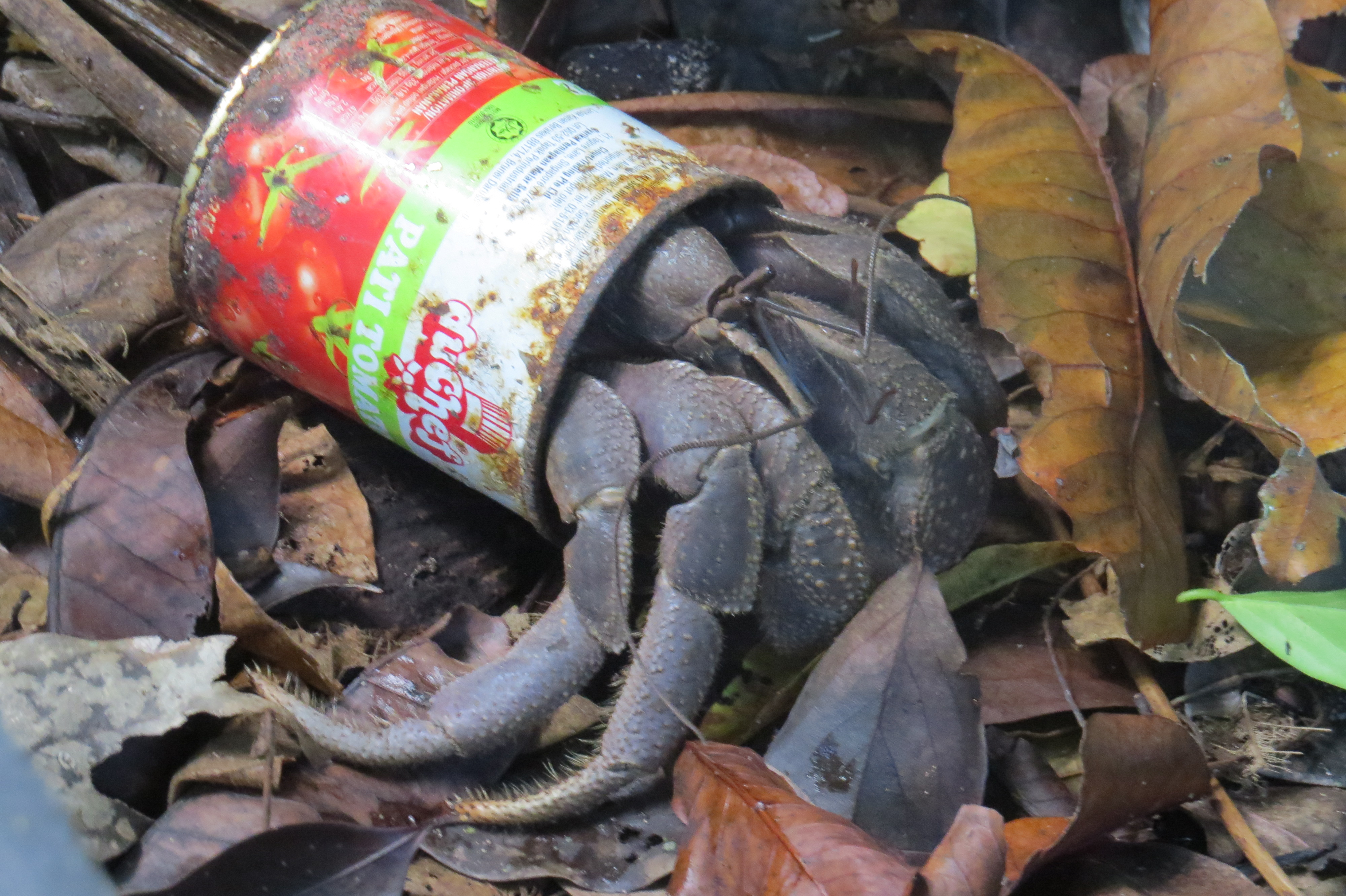 A purple hermit crab (Coenobita brevimanus) living in a trash pile on Pom Pom Island, Malaysia. He is using an old soup can as his shell because there were no large snail shells left in the area.